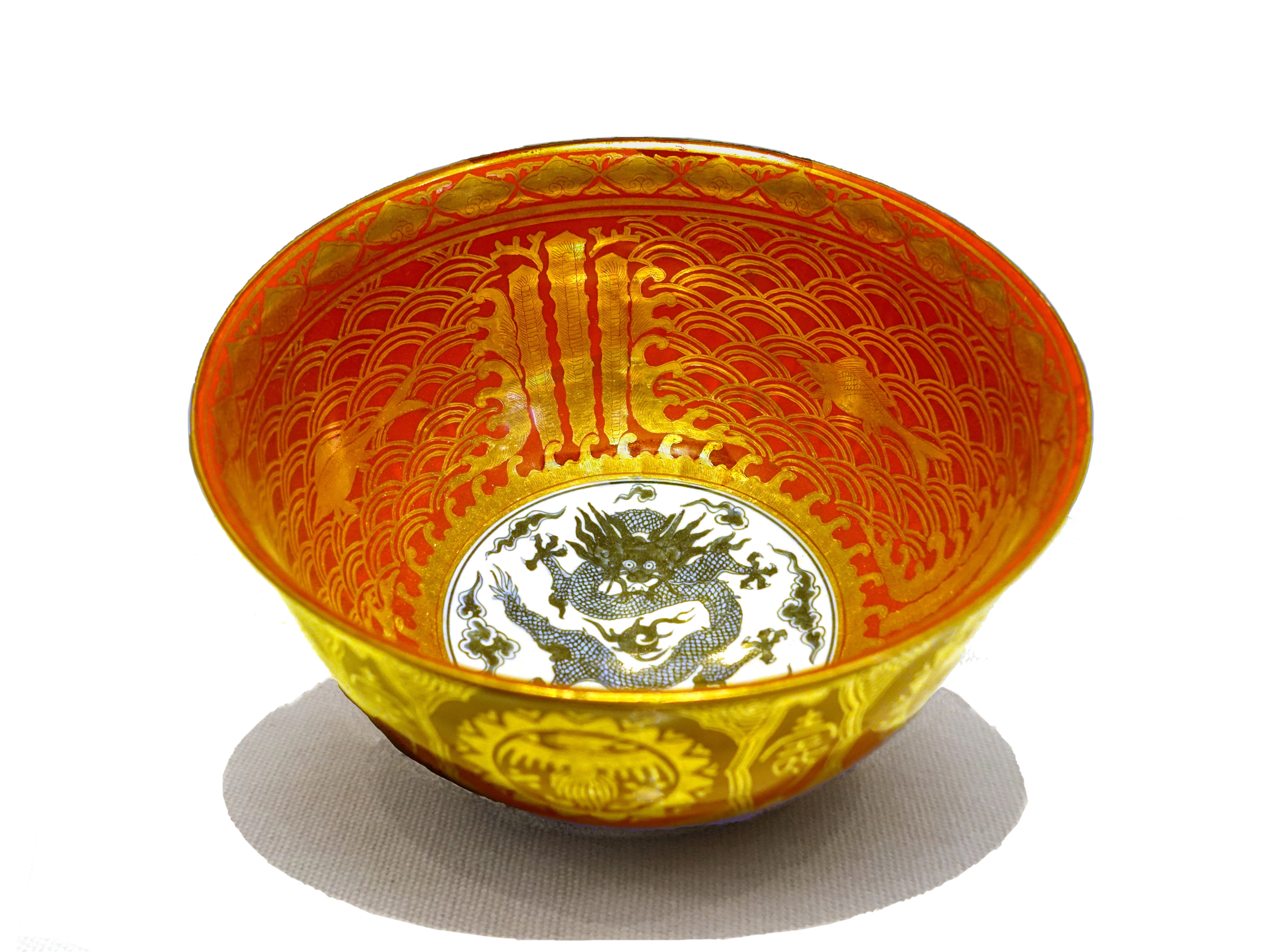 Kinrande-style bowl, Eiraku Hozen, Kyoto, Japan, c. 1830-1850, porcelain, underglaze blue, red enamel, gilding. Exhibit in the Montreal Museum of Fine Arts - Montreal, Quebec, Canada.